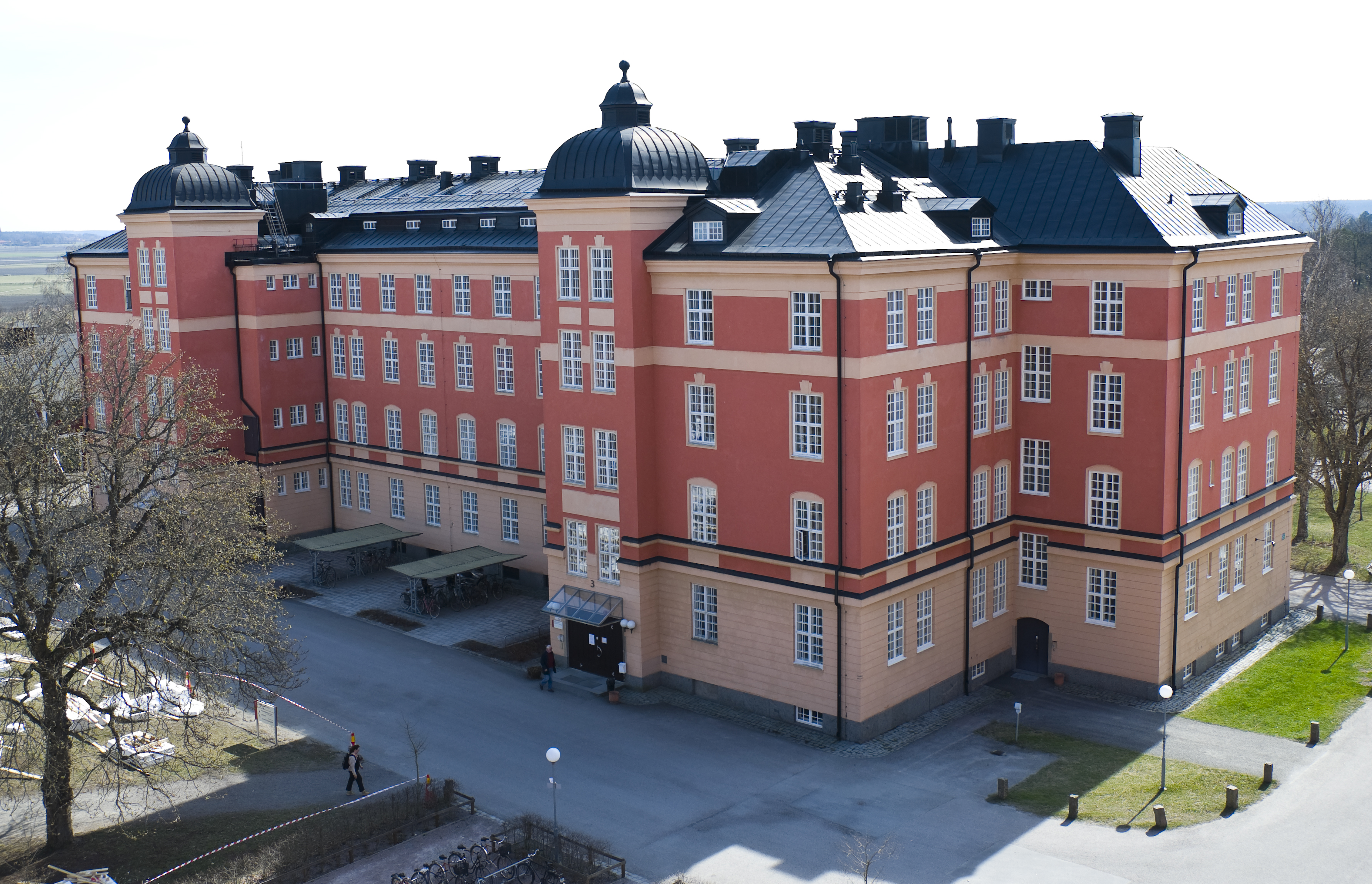 House 3 of the Information Technology Center of Uppsala University during The River Festival 2009.